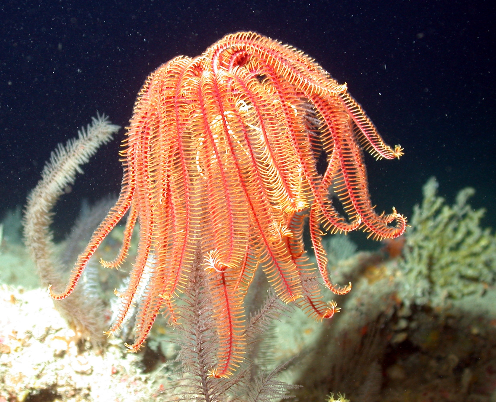 A stalked crinoid. Gulf of Mexico, West Bank, Flower Garden Banks NMS.